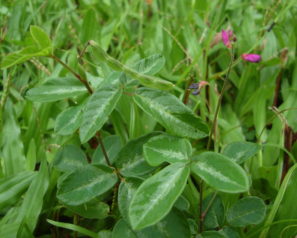 Desmodium incanum, Spanish clover, (kihikihi), a weed in Tonga